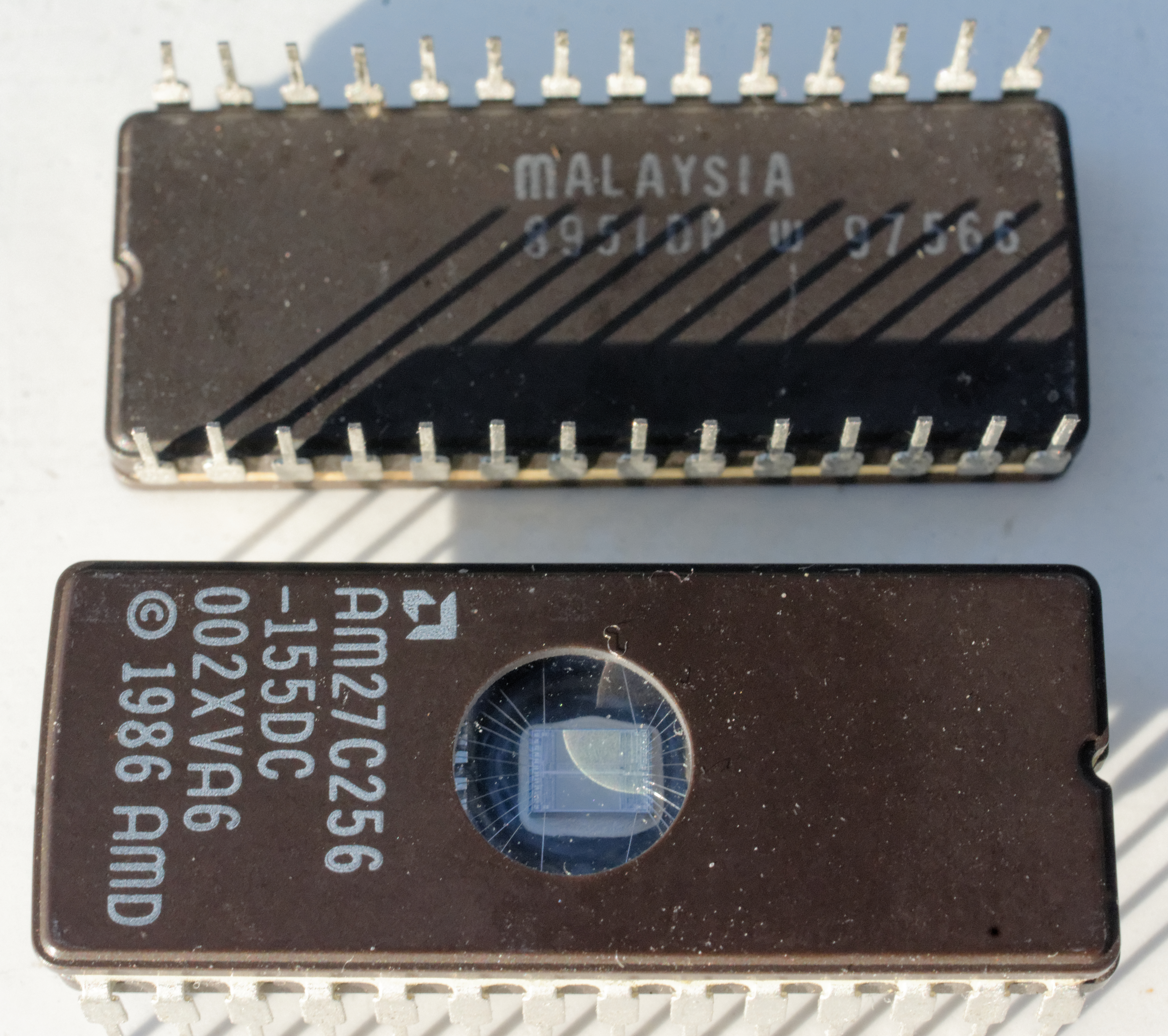 A pair of American Megatrends Inc. (AMI) BIOS chips from a Dell 310, a late-1980s computer based on the Intel 80386.